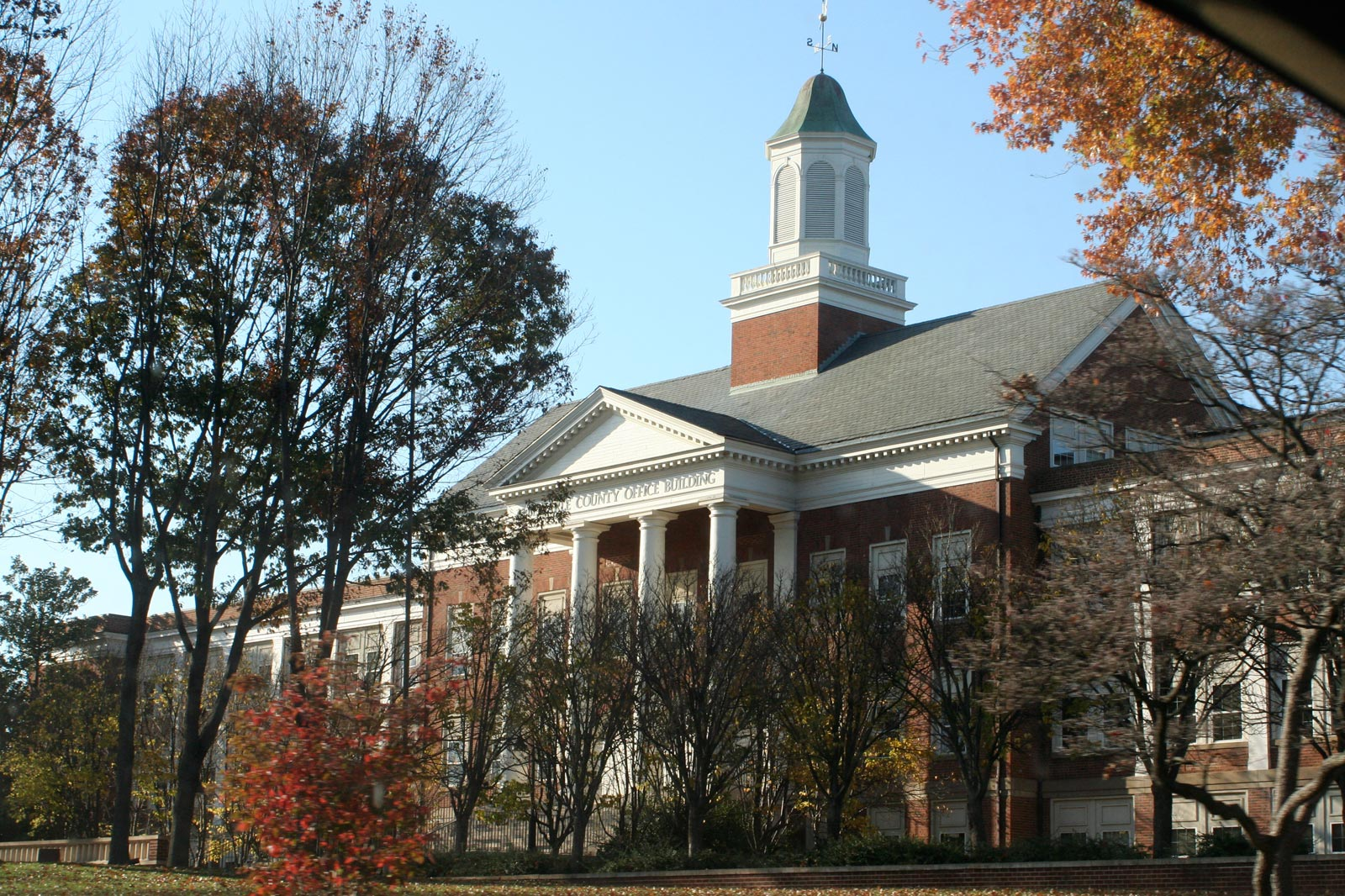 A photograph of the Albemarle County Office Building in Charlottesville, Virginia, United States of America. Formerly the Lane High School.